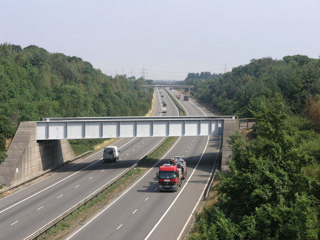 Three Bridges. Four bridges if you count the A638 that supports the camera. The railway bridge carries the Doncaster to Gainsborough line. The next bridge carries local traffic and the third one in the hazy distance carries a Roman road over the motorway from this square to the next one north.